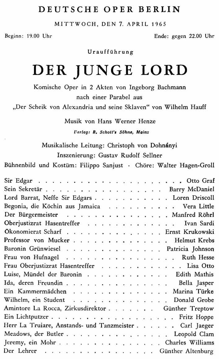 Playbill for the premiere of Hans Werner Henze's opera Der junge Lord on 7 April 1965 at the Deutsche Oper Berlin